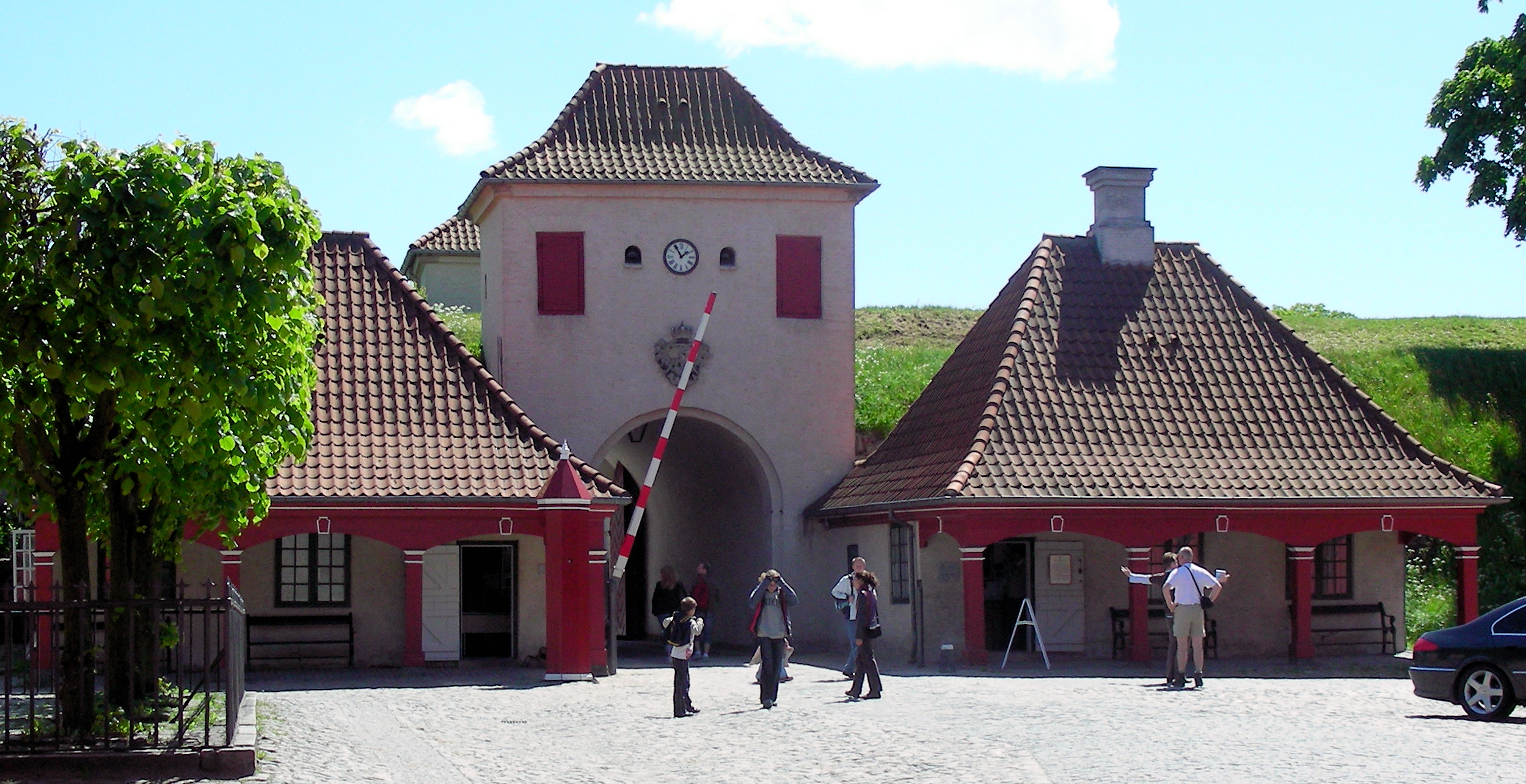 The Citadel of Copenhagen aka Kastellet. Kongeporten